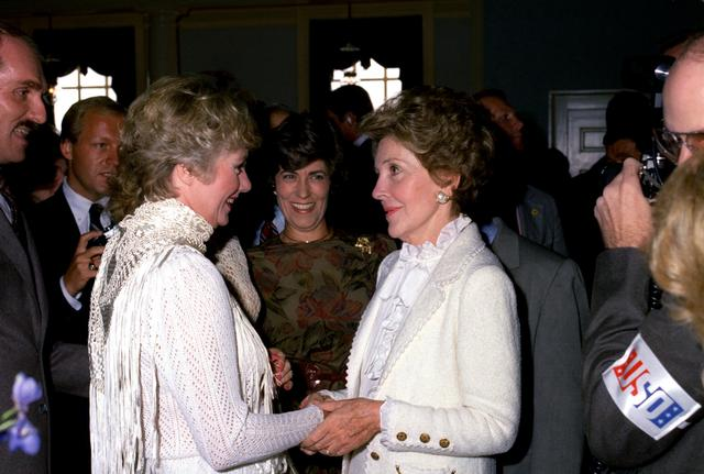 First Lady Nancy Reagan, right, talks with entertainer Shirley Jones during a USO award luncheon.